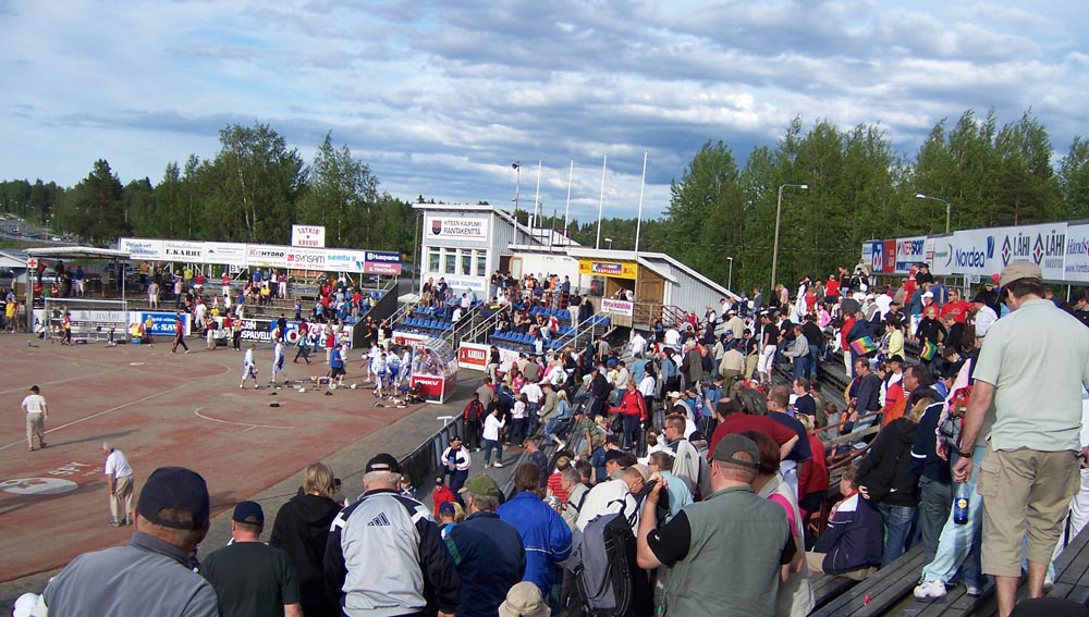 Kitee baseball stadium Rantakenttä